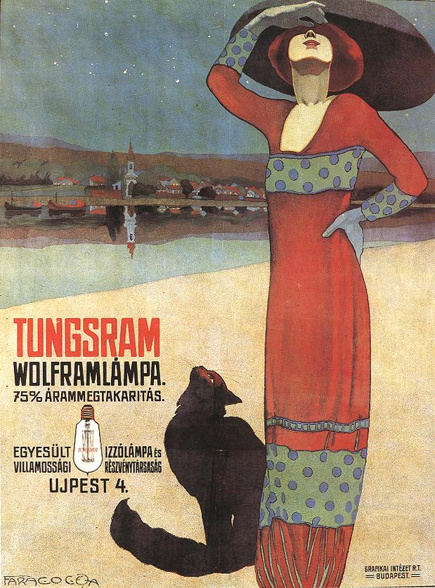 Poster for Tungsram Light Bulbs